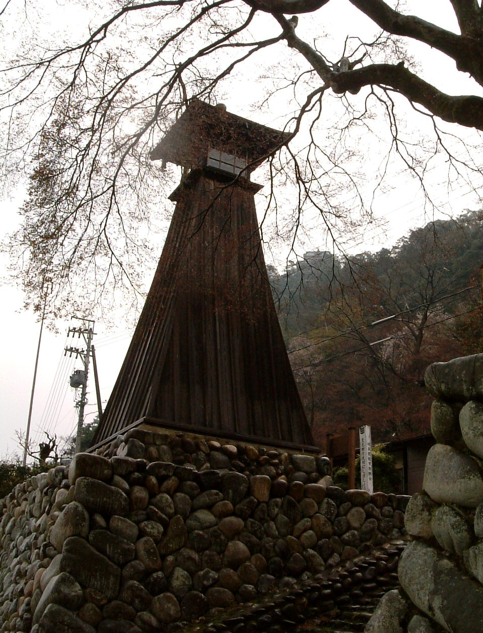 a lighthouse, Nagara river, Mino, Gifu Prefecture, Japan. 上有知湊の川湊灯台。